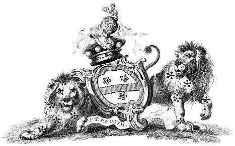 Source: Catton's English Peerage, 1790